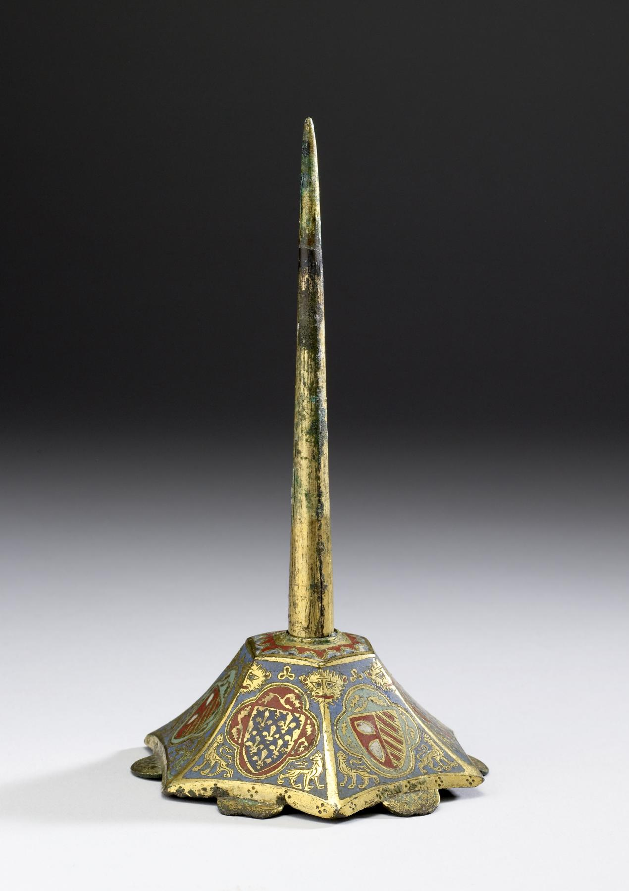 The base of this pricket candlestick bears the combined arms of Bernard VIII (d. 1339), count of Comminges, and those of his second wife, Marguerite de Turenne, alternating with the fleur de lys, the heraldic emblem of the royal house of France. Although such personal items were often commissioned as gifts to commemorate special events, coats of arms did not necessarily refer to a specific patron but were part of workshops' decorative repertoire.